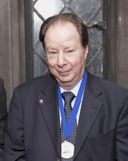 Dr. John Ruffin (left), NIMHD director, and Dr. Sidney Altman receive the Yale University Bouchet Leadership Award.